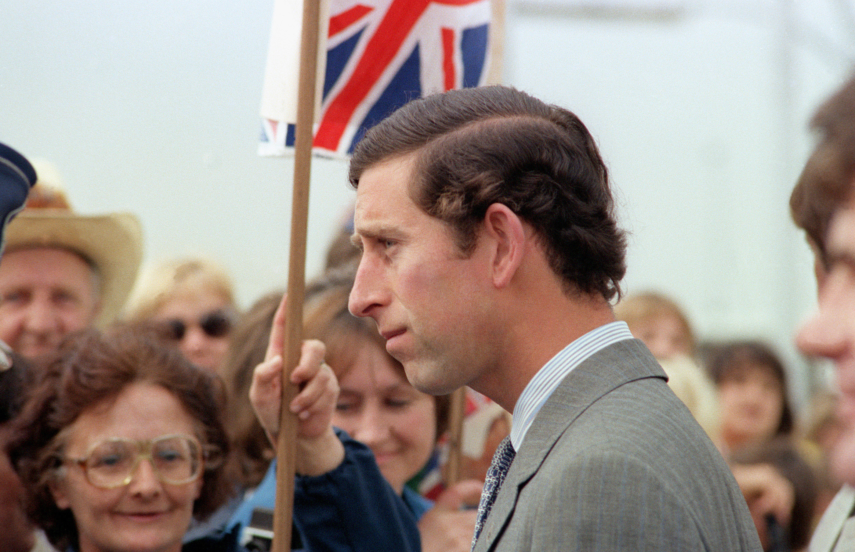 Charles, Prince of Wales is welcomed upon his arrival for a visit to the United States.